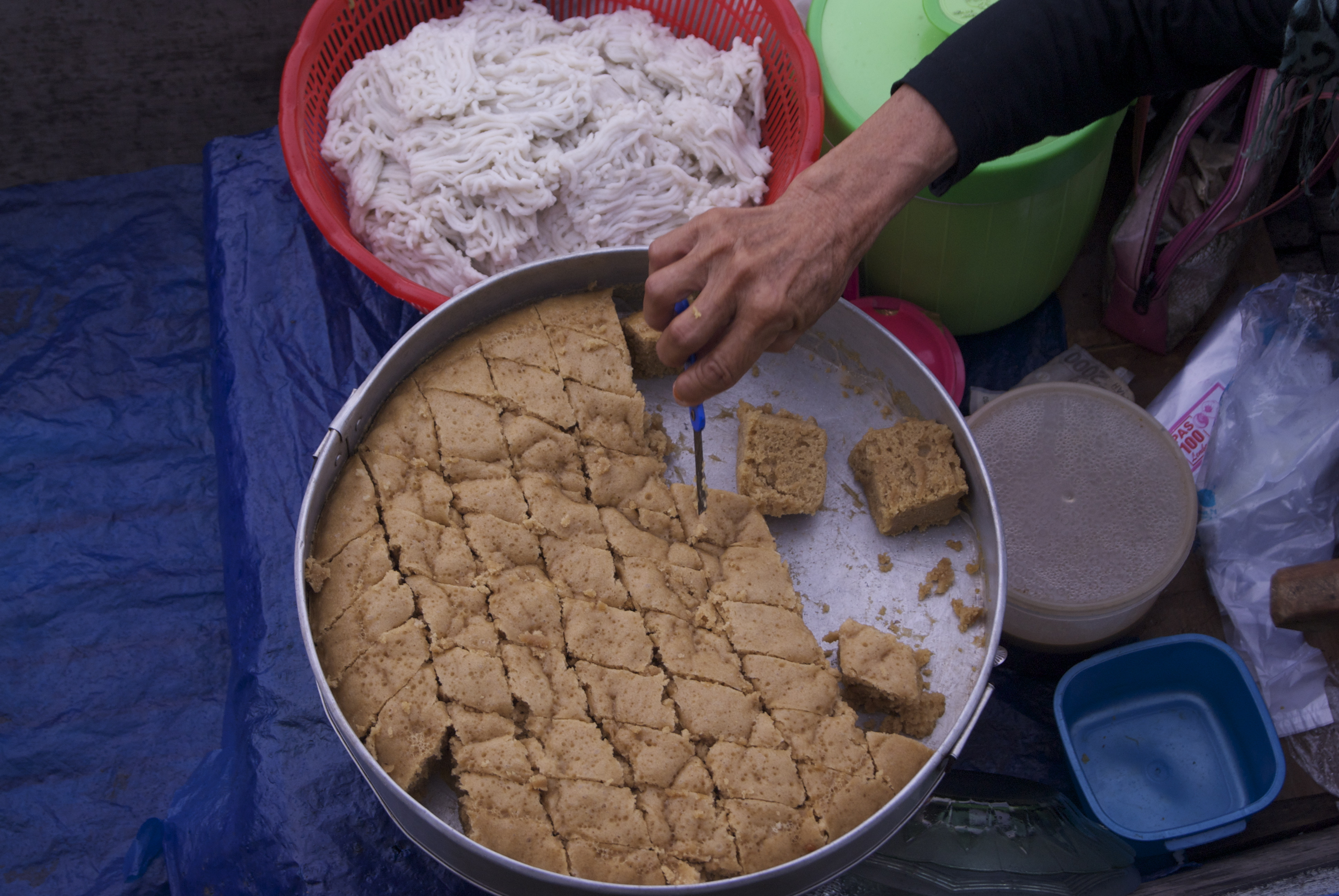 Lok Baintan Floating Market is located in Banjar Regency, South Kalimantan, less than an hour from central Banjarmasin by klotok (traditional boat).